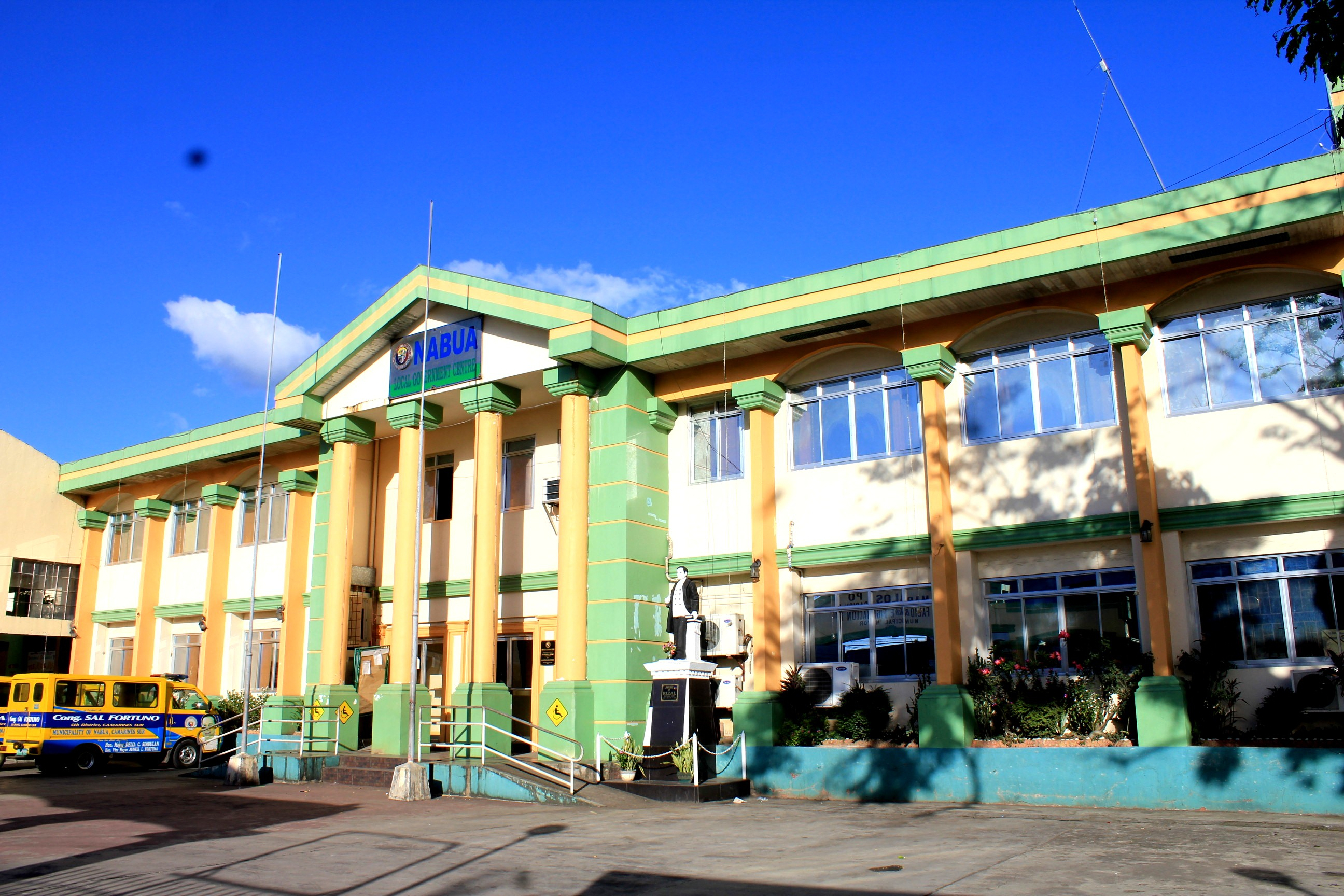 Municipio ka Nabua